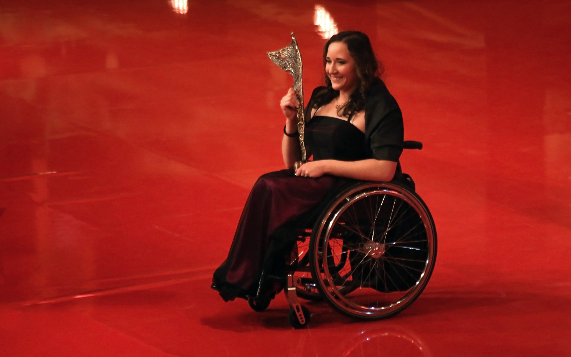 Claudia Lösch with the award as "Disabled Sportswoman of the Year"; award show for the Austrian Sportspersonalities of the Year 2013 at Austria Center Vienna (Vienna, Austria).